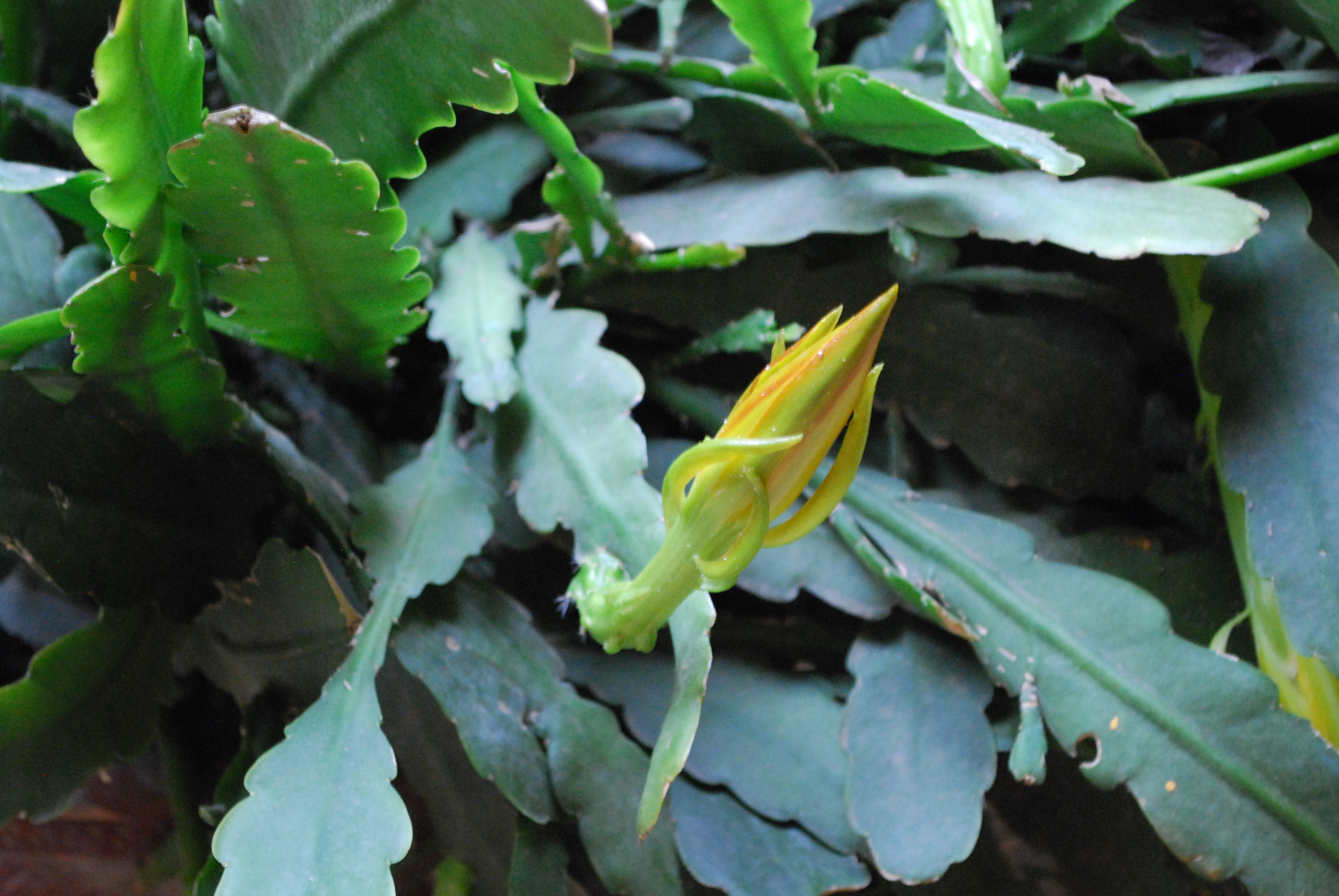 Unopened flower of Epiphyllum crenatum at the Casa Na Bolom in San Cristobal de las Casas, Chiapas, Mexico